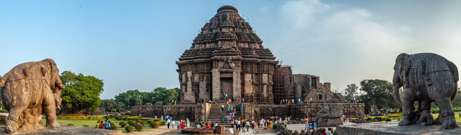 Konark Sun Temple A panoramic view of the north side of the sun temple